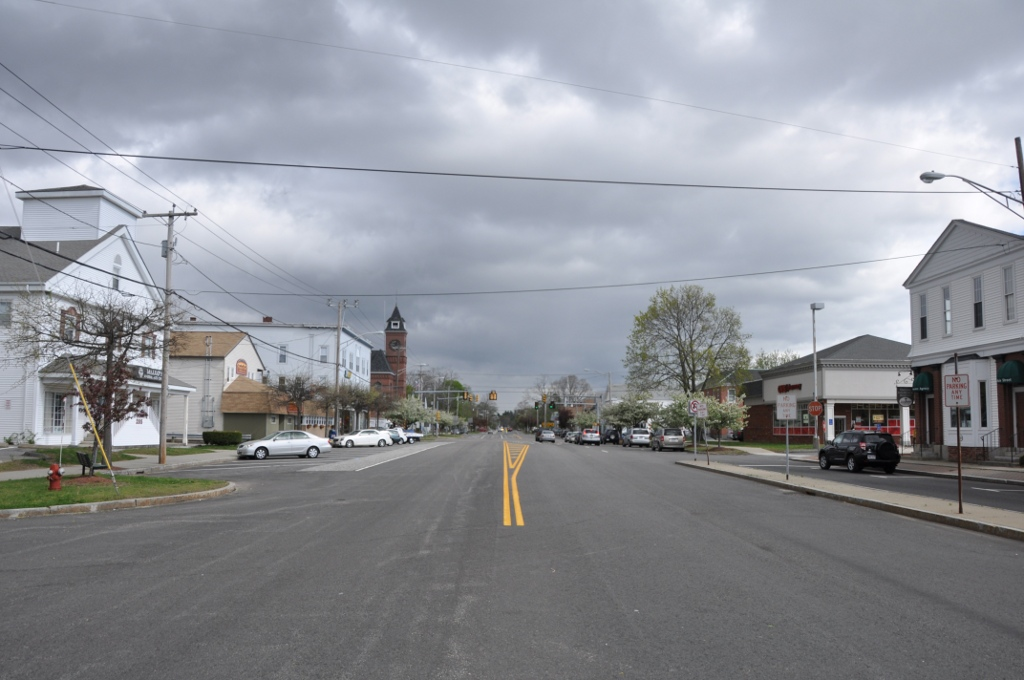 Main Street (looking north toward the main intersection) in Oxford, Massachusetts.